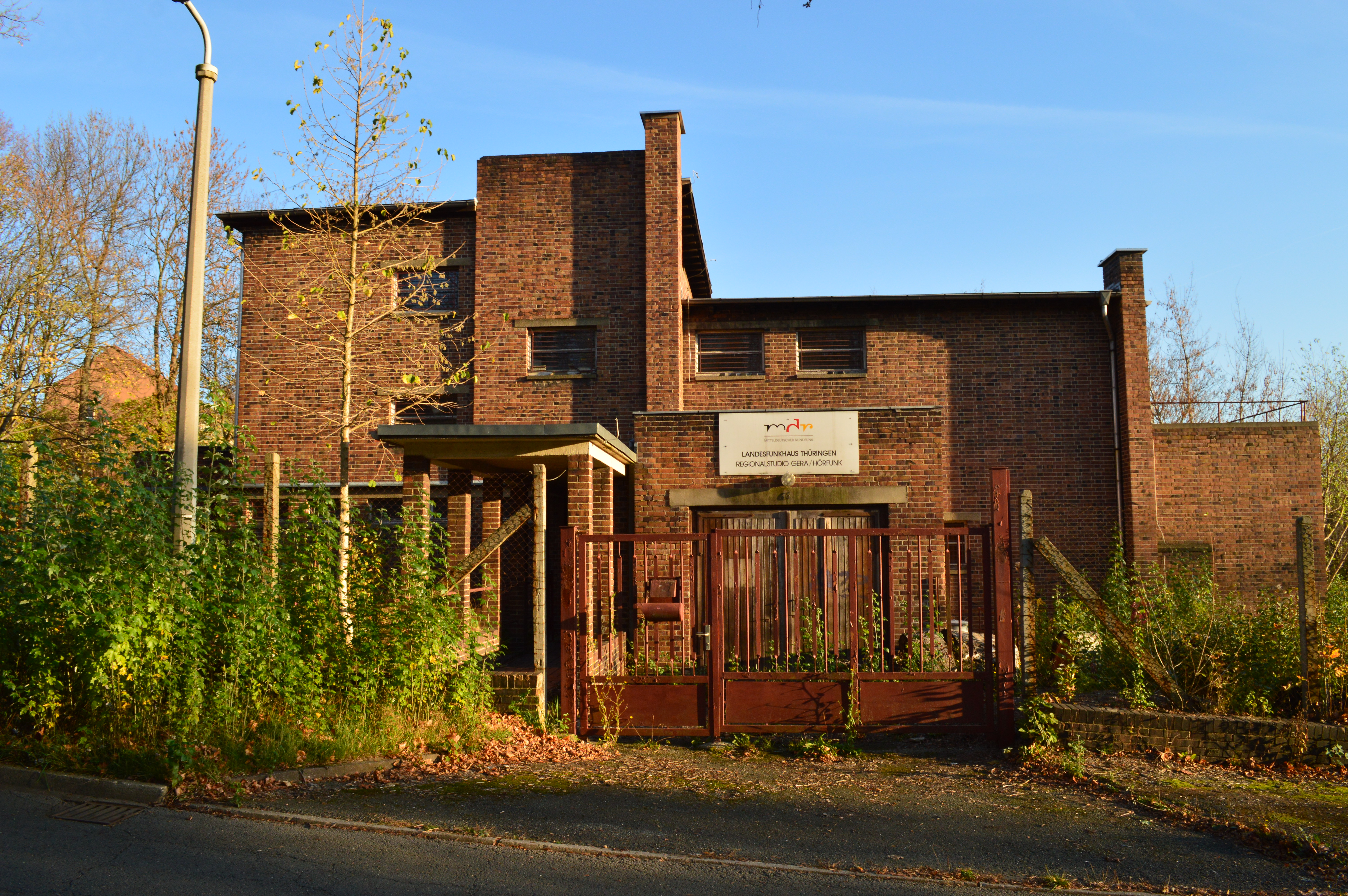 Former Haus Meyer at Julius-Sturm-Straße 6 in Gera, Germany; built in 1926/27 by architect Thilo Schoder